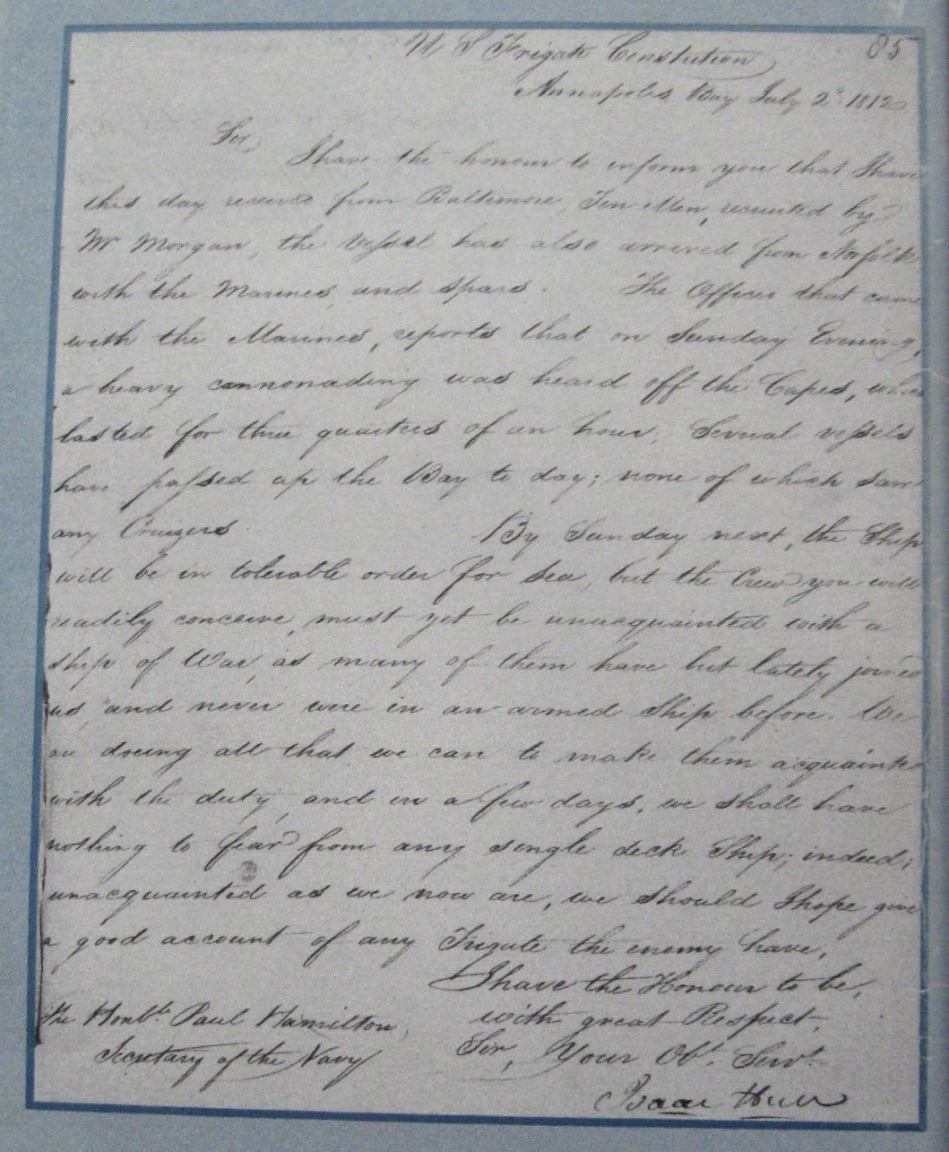 Letter of Isaac Hull to Paul Hamilton July 2, 1812, re status of USS Constitution and crew. NARA Washington D.C., RG45, CL, 1812, Volume 2, No.85.